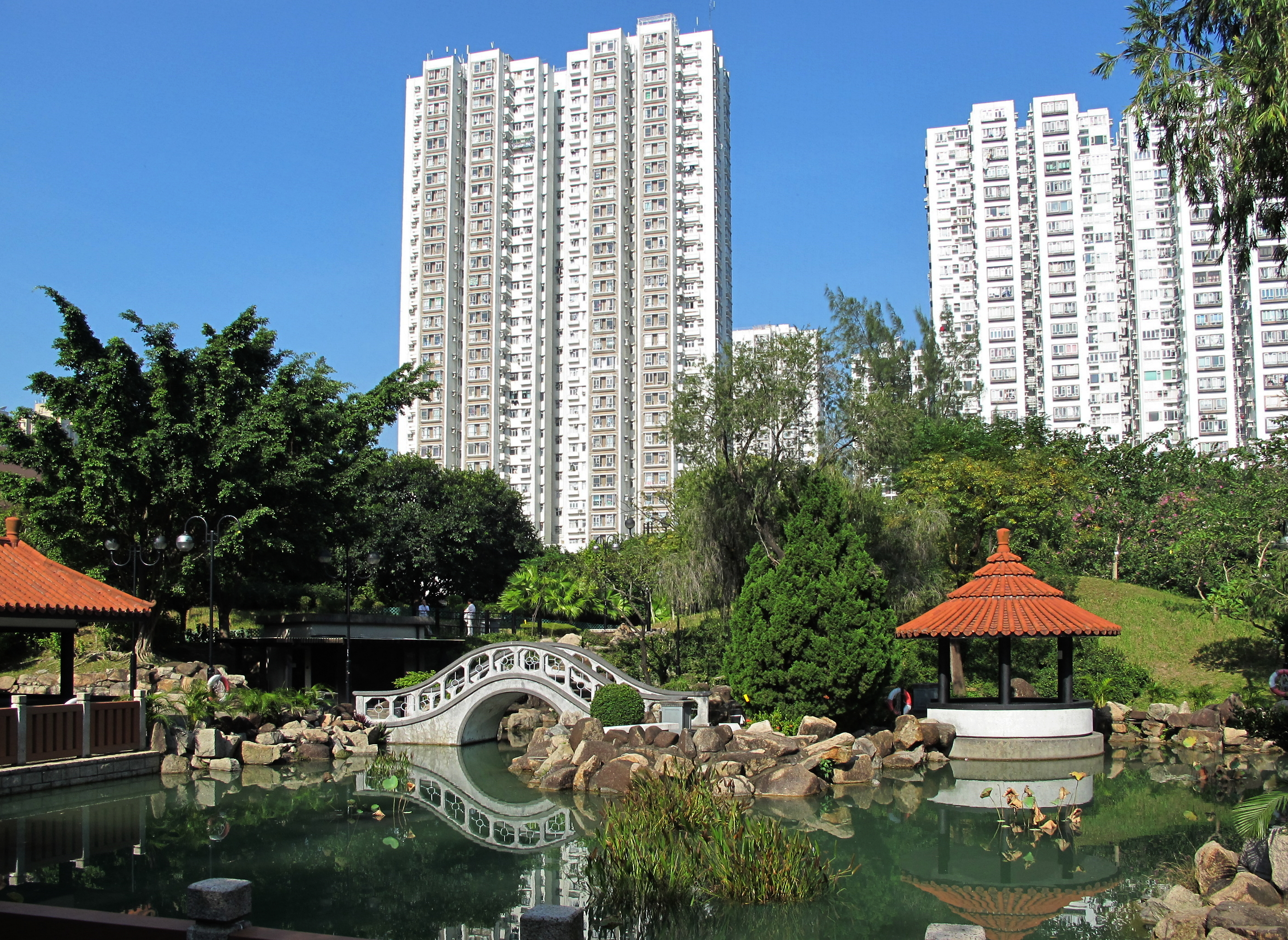 Sha Tin Park South Garden